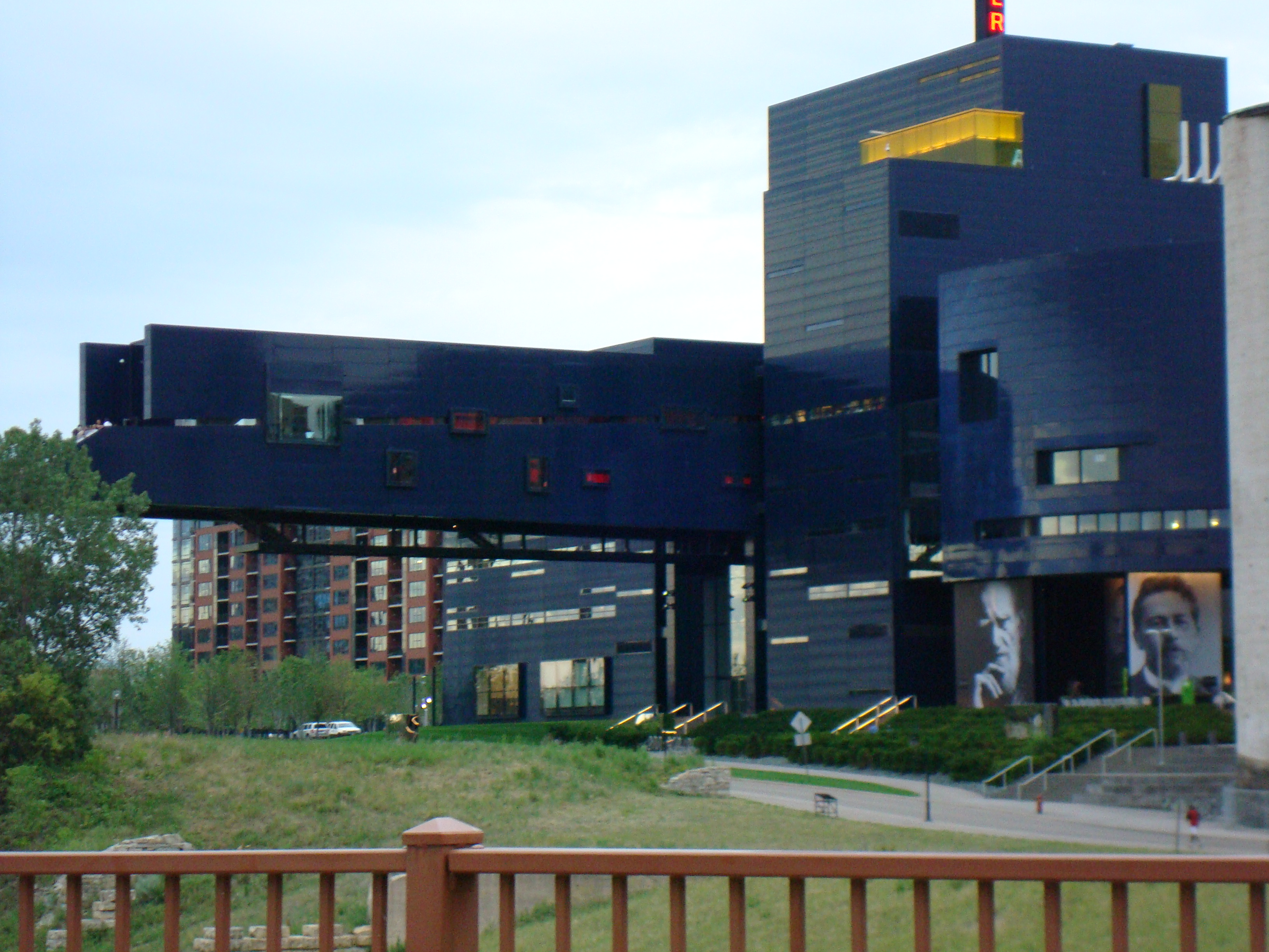 Guthrie Theater in Minneapolis, Minnesota